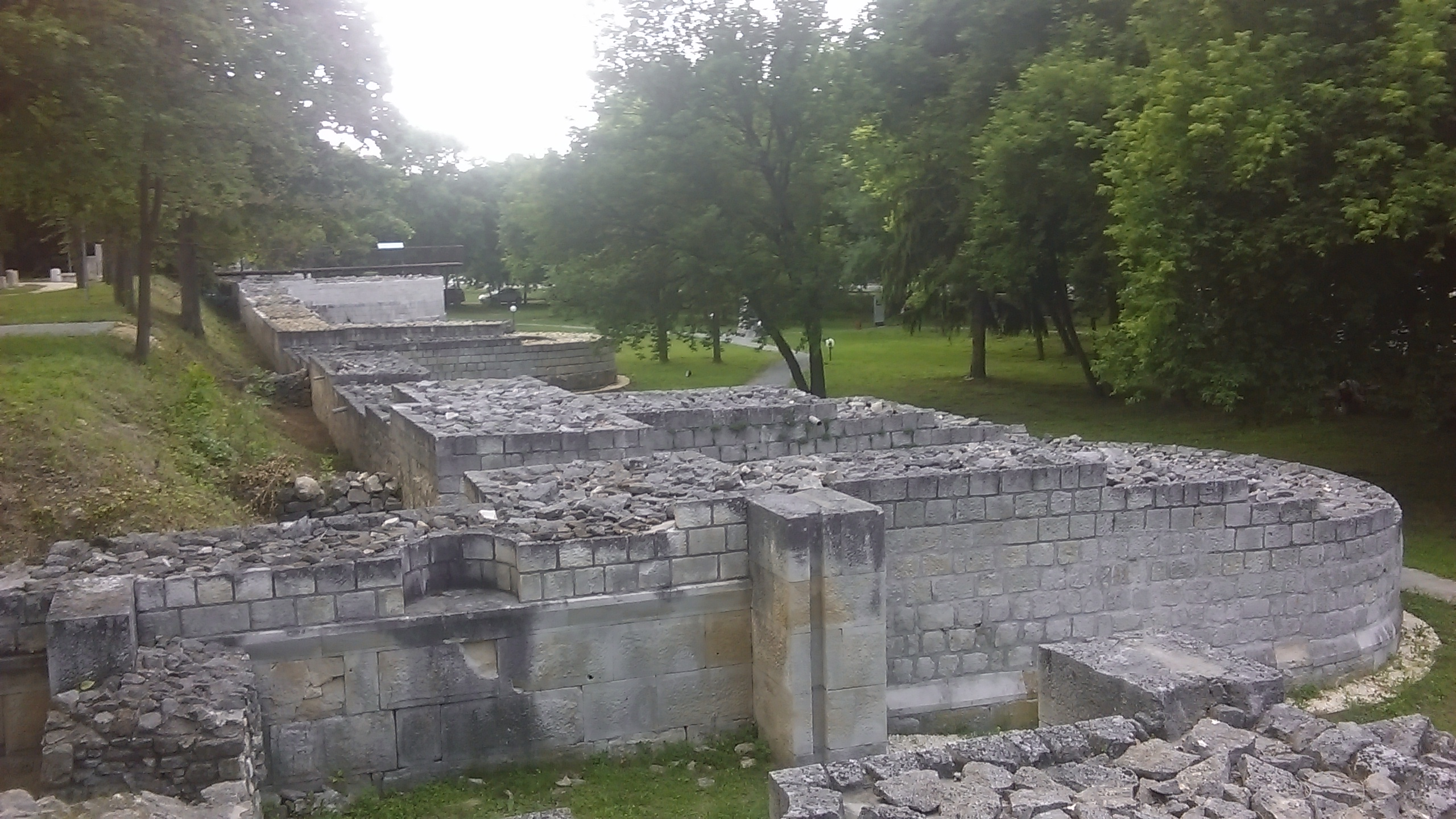 Northern gate, Abritus historical reserve, Razgrad